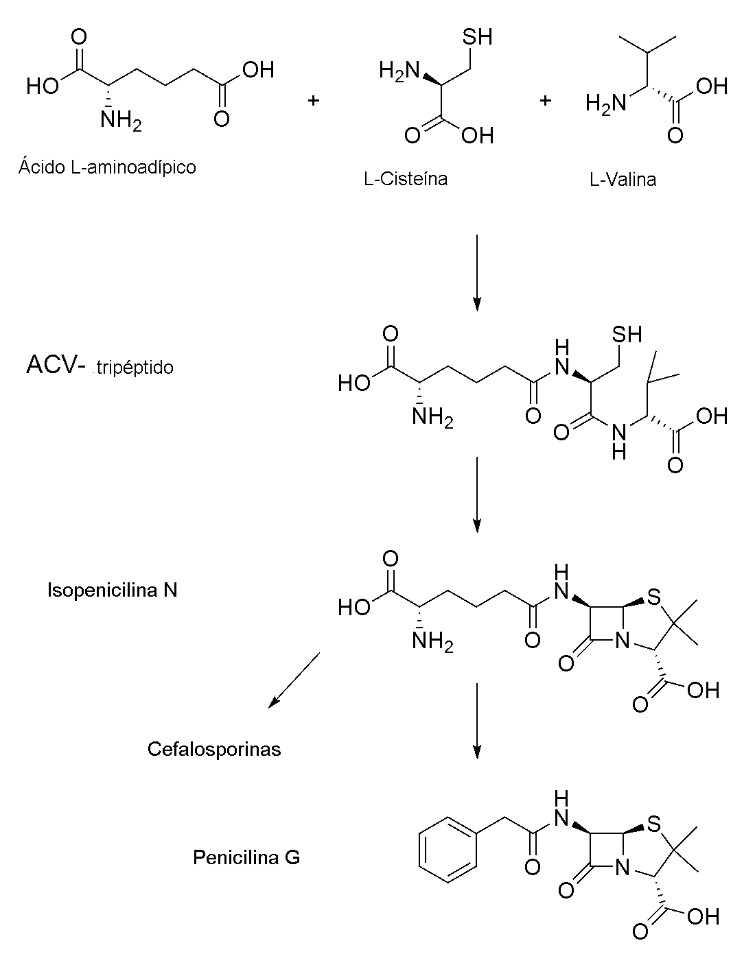 Spanish version of Image:Penicillin-biosynthesis.png